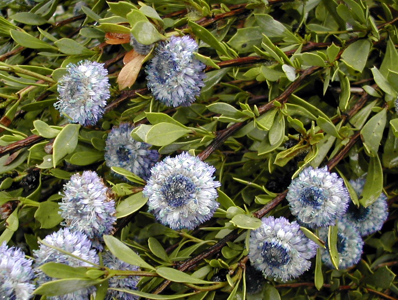 Globularia alypum Author: David Gaya Place: Vallhonesta, Bages (Catalonia)